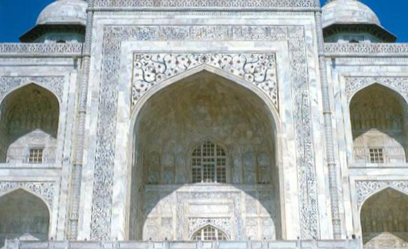 Taj Mahal: archway of main entry to tomb